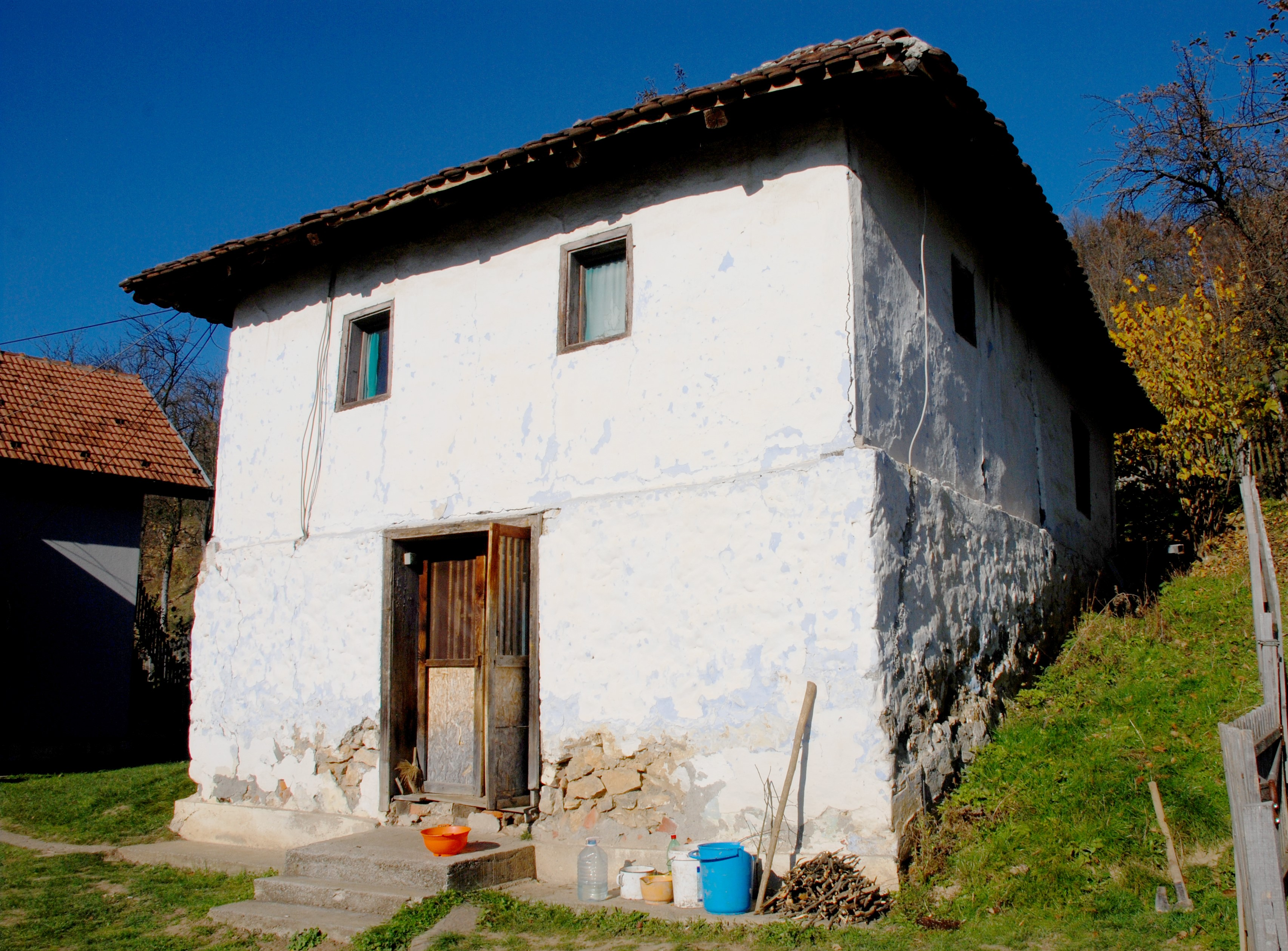 House of Dragomir Popović in Sveštica, Ivanjica